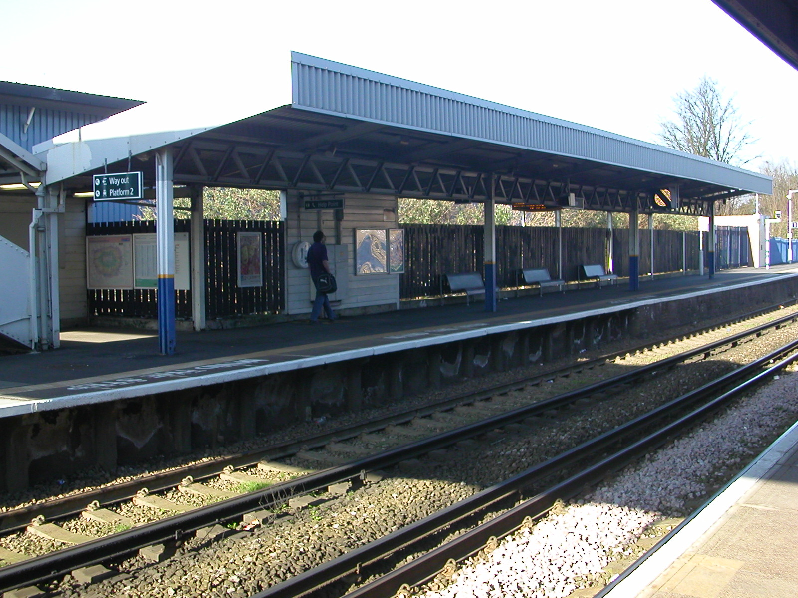 View across the eastbound platform at Waddon railway station.